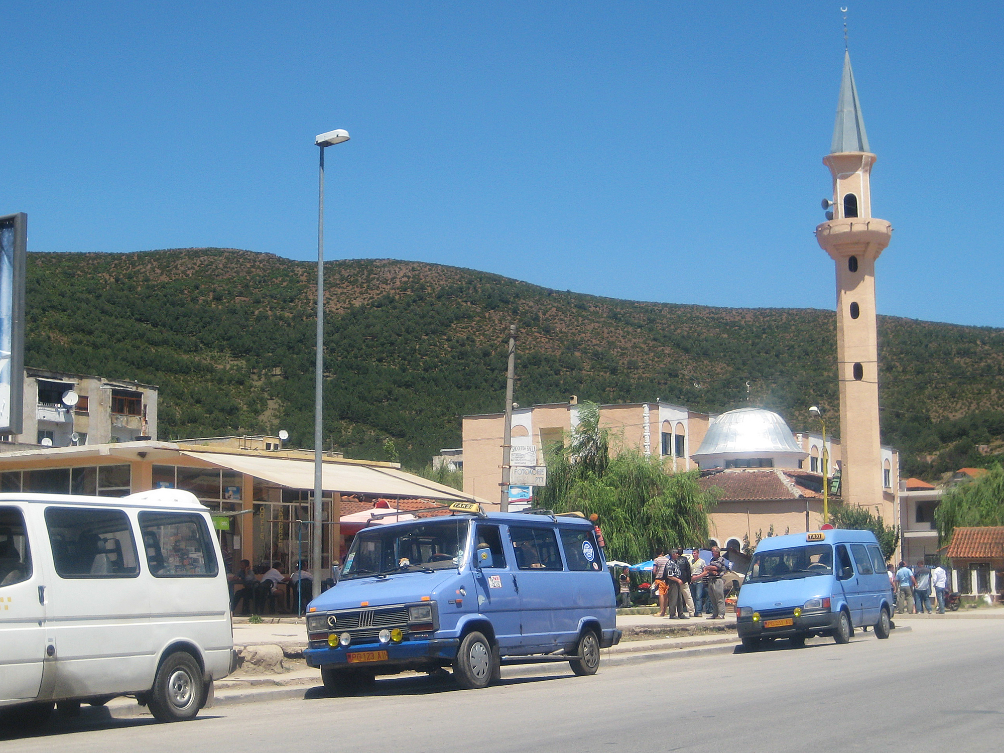 Përrenjas village in Eastern Albania